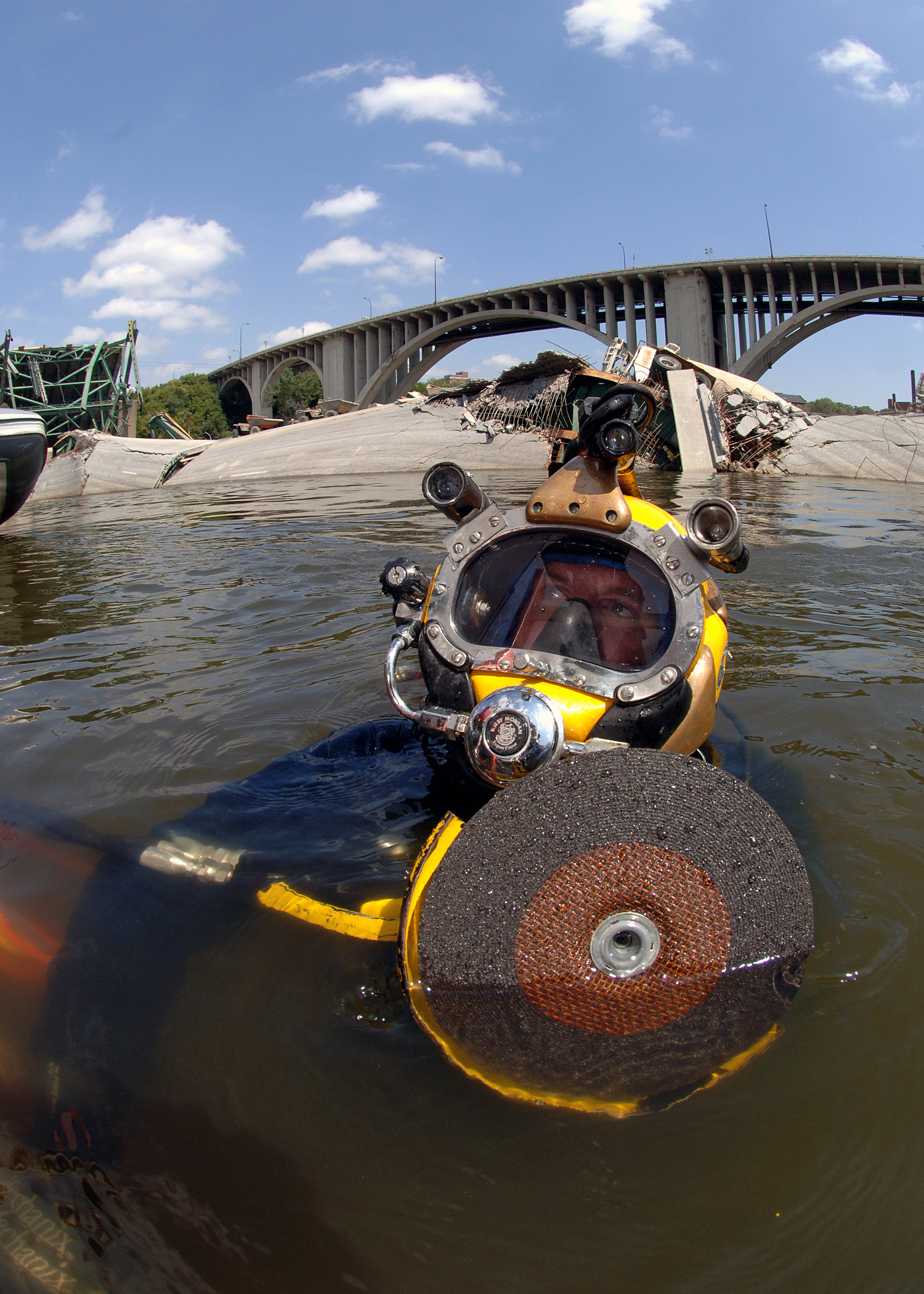 MINNEAPOLIS, Minn. (Aug. 11, 2007) - Navy Diver 1st Class Joshua Harsh attached to Mobile Diving and Salvage Unit (MDSU) 2 from Naval Amphibious Base Little Creek, Va., prepares to leave the surface on a salvage dive in the Mississippi River. MDSU-2 is assisting other federal, state, and local authorities managing disaster and recovery efforts at the site of the I-35 bridge collapse. U.S. Navy photo by Senior Chief Mass Communication Specialist Andrew McKaskle (RELEASED)